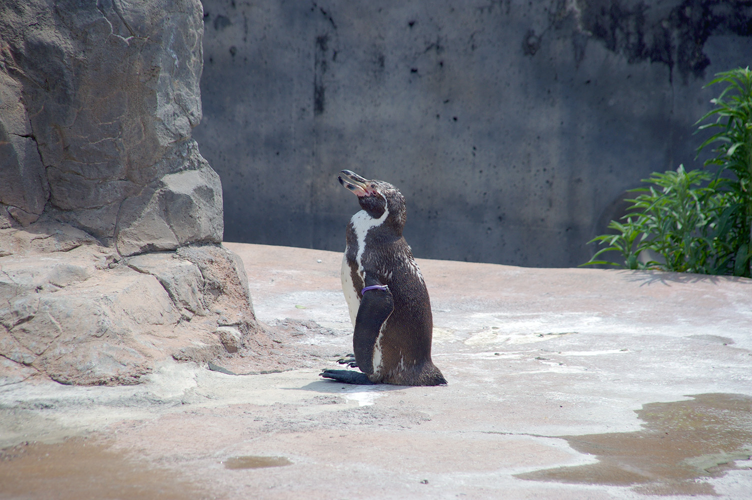 Humboldt penguin named "Grape" (male, age 21), you can see purple band on the left flipper. 06 Jun 2017, Tobu zoo (Saitama pref, Japan).